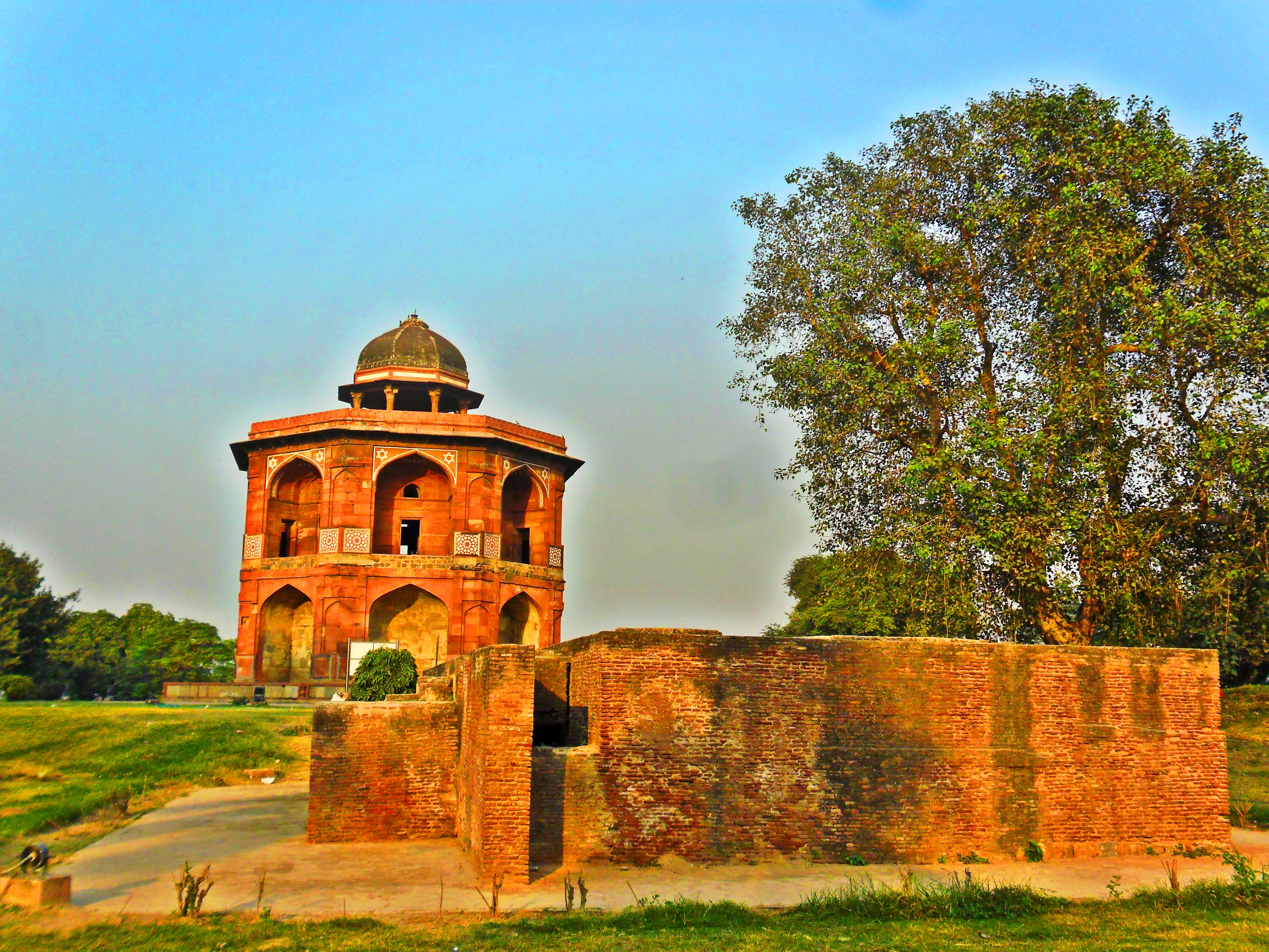 Old Fort Humayuns private library Purana Qila and Hammam